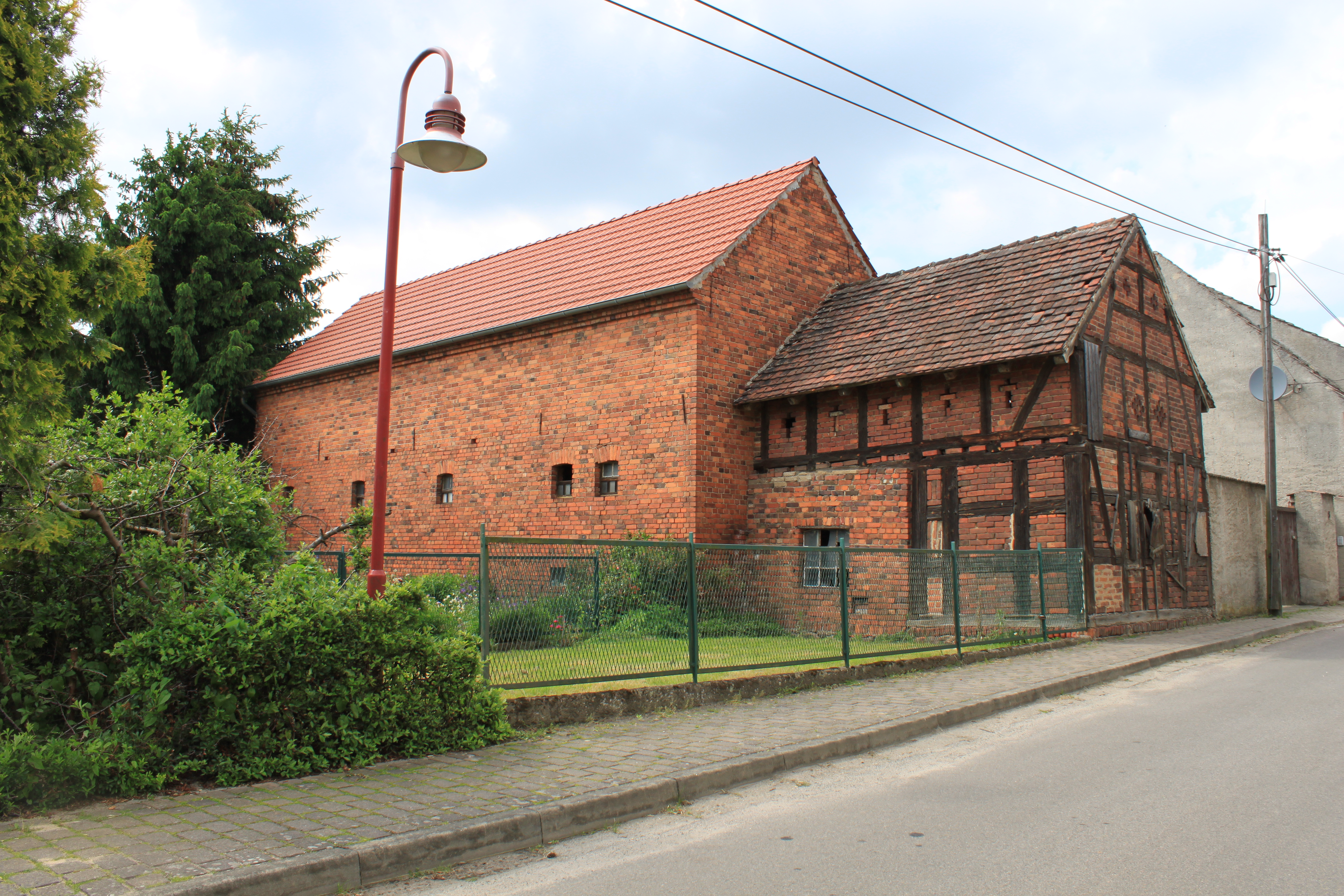 Naundorf